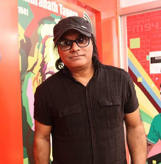 Hamin Ahmed is a Bangladeshi musician. He is a member of the rock band Miles.